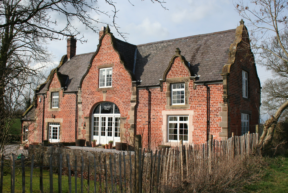 The Wharf, Minshull Vernon